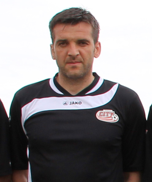 Photo of footballer Rade Novković during his time playing for Canadian Soccer League side London City.